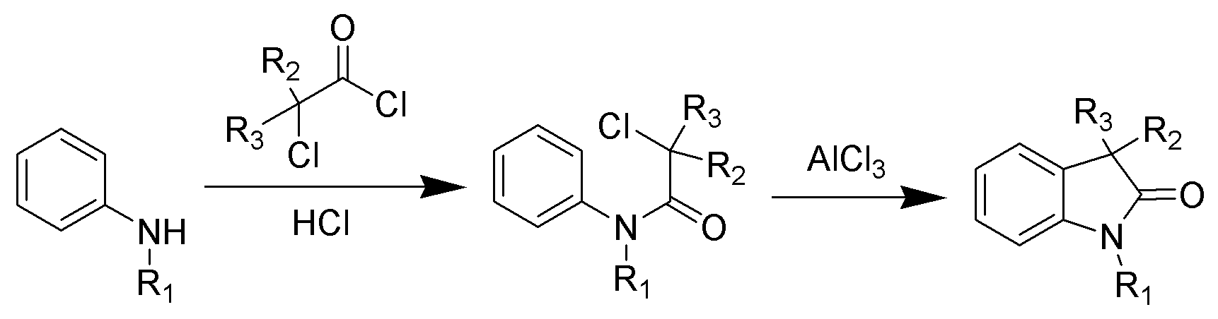 Description: Reaction scheme of the Stollé synthesis. Author, date of creation: selfmade by ~K, 25 November 2005. Source: - Copyright: Public domain. (PD) Comments: high-resolution b/w PNG; ChemDraw / The GIMP.